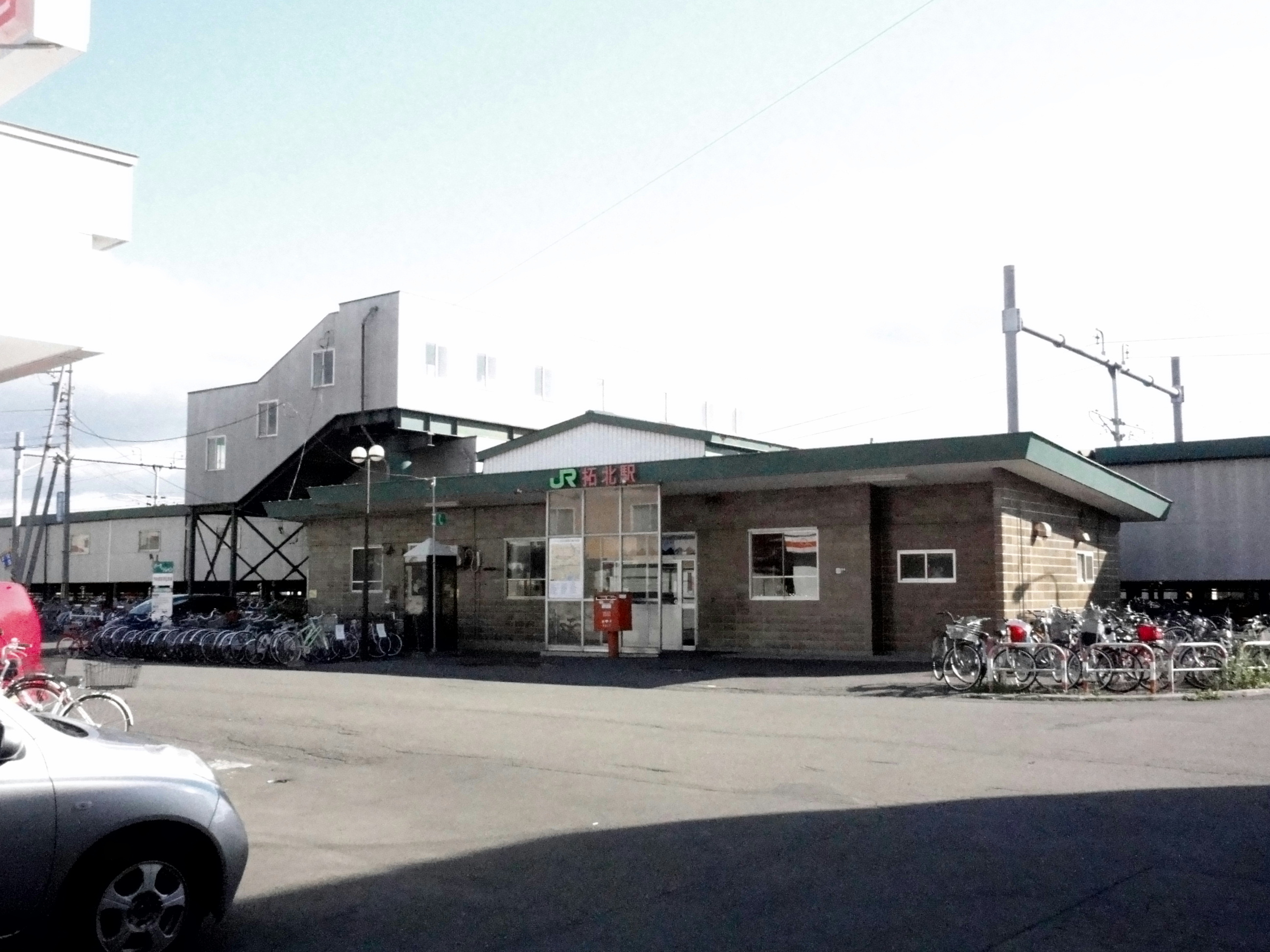 North entrance of Takuhoku Station on the Sasshō Line (Kita-ku, Sapporo, Hokkaido)